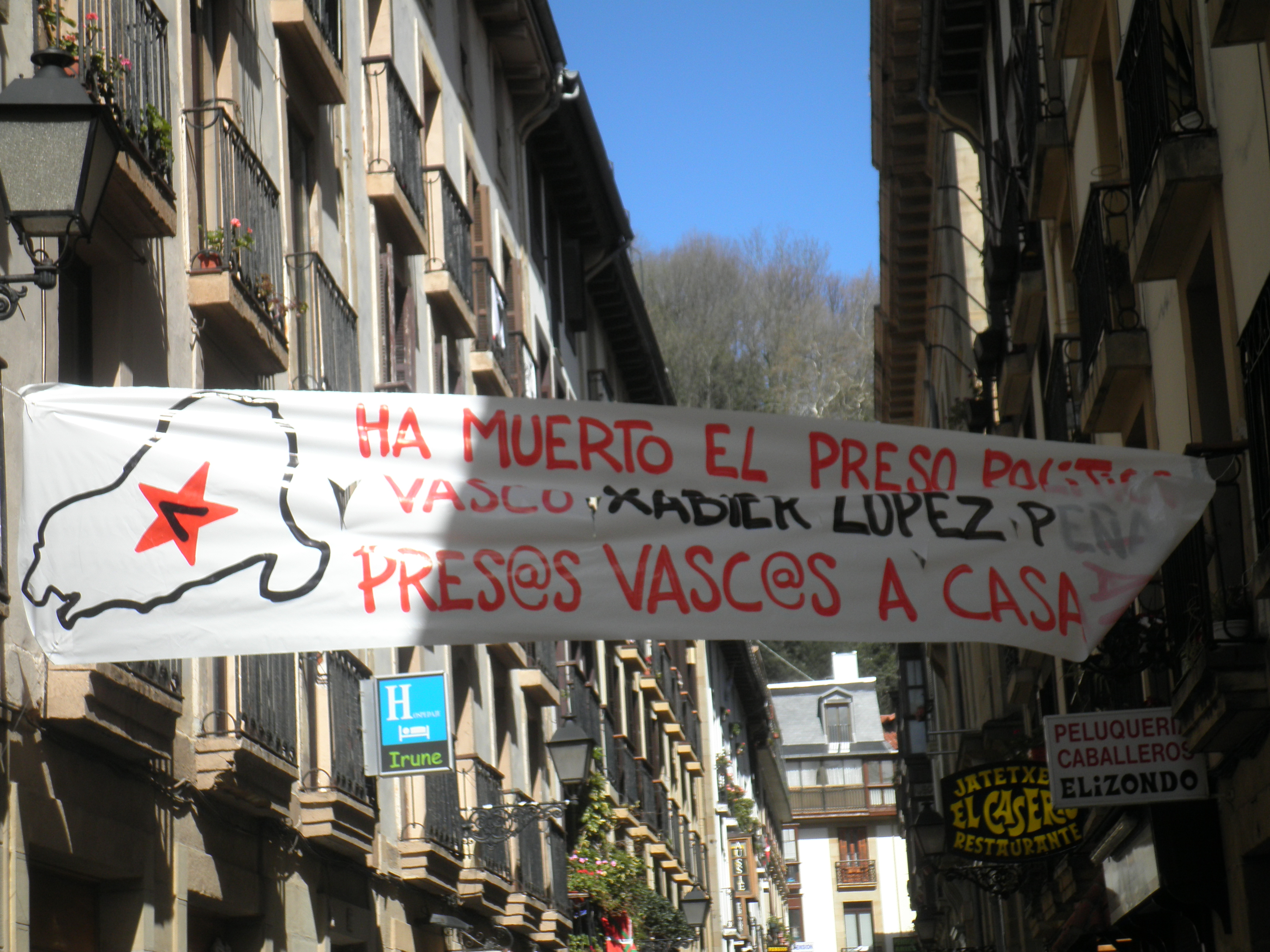 Banner protesting against ETA activist Xabier Lopez Peña's death in jail.